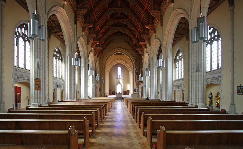 St Benedict's Ealing Abbey, Charlbury Grove, London W5 - East end